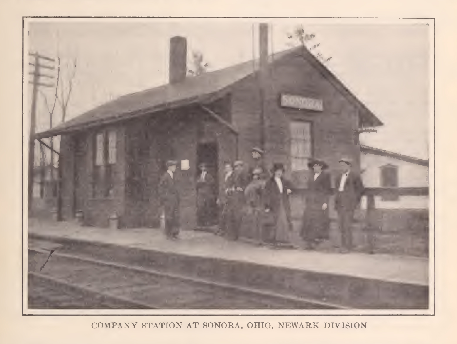 Photograph of Baltimore & Ohio Railroad Station in Sonora, Ohio, that appeared in Baltimore & Ohio Employes Magazine, January 1914, Vol. 02 No. 04, Page 79